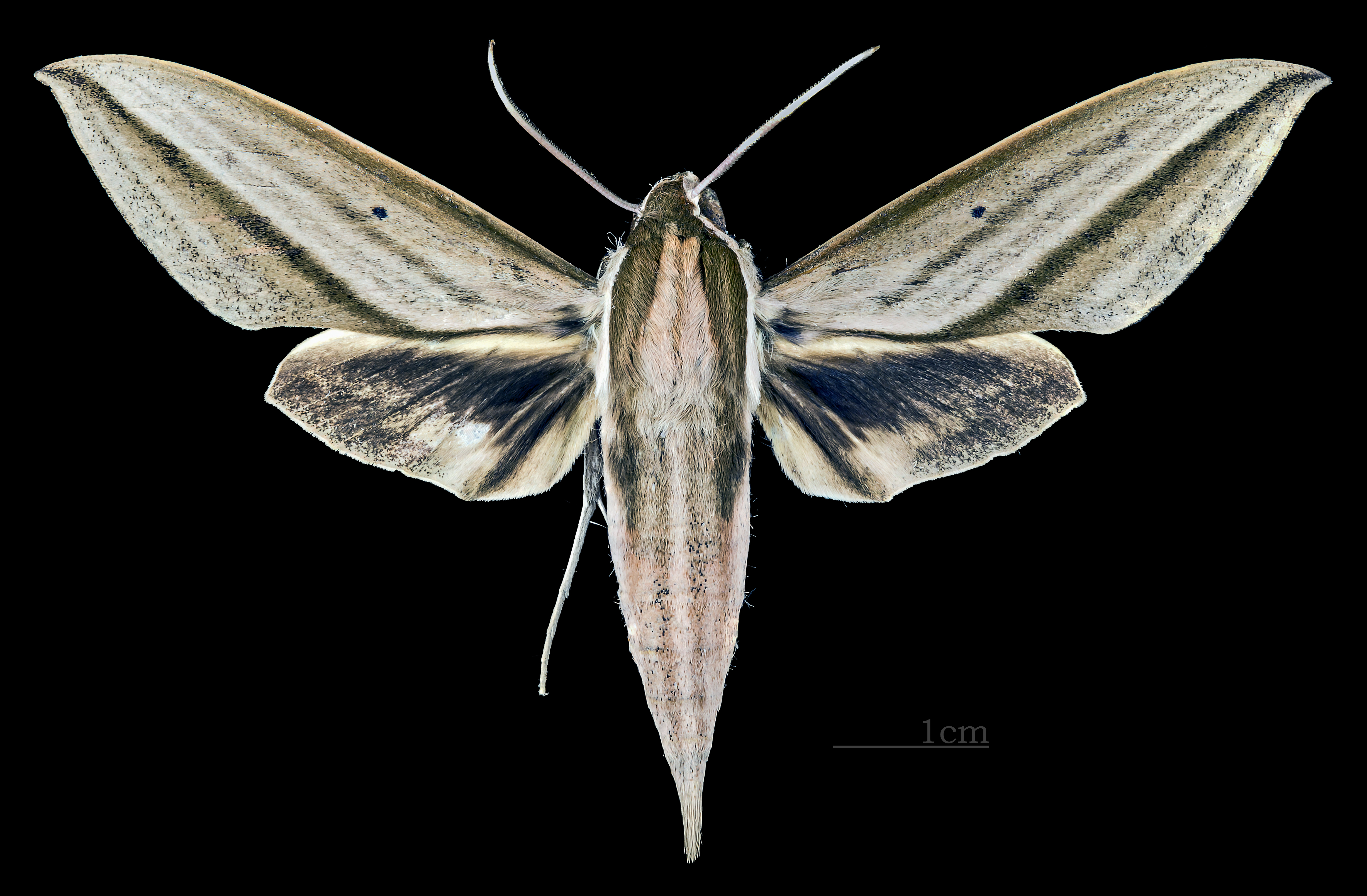 Theretra radiosa - Dorsal side Collection of the Mathematician Laurent Schwartz